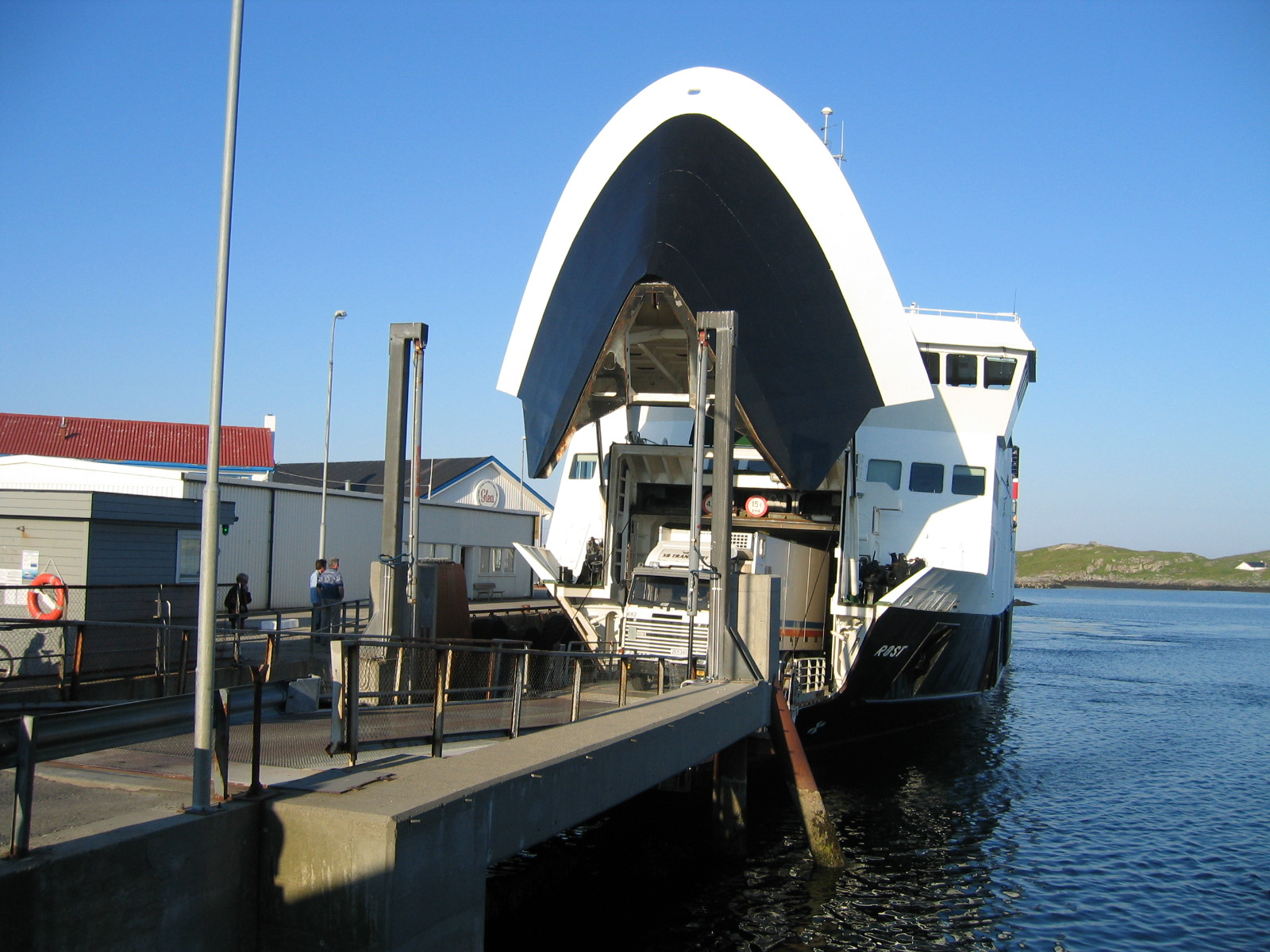 Cars driving of the ferry "M/F Røst" on the island Røst in Lofoten, Norway